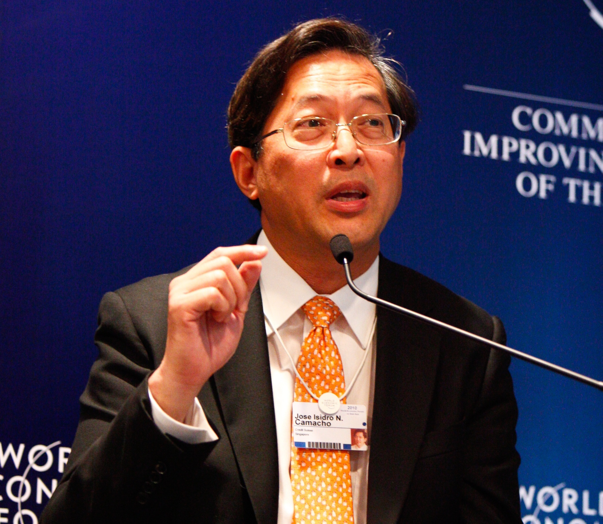 HO CHI MINH CITY/VIETNAM, 6JUN10 -Jose Isidro N. Camacho, Vice-Chairman, Asia Pacific, Credit Suisse, Singapore captured during the World Economic Forum on East Asia in Ho Chi Minch City, Vietnam, June 6, 2010. Copyright World Economic Forum /Ms. Sikarin Thanachaiary